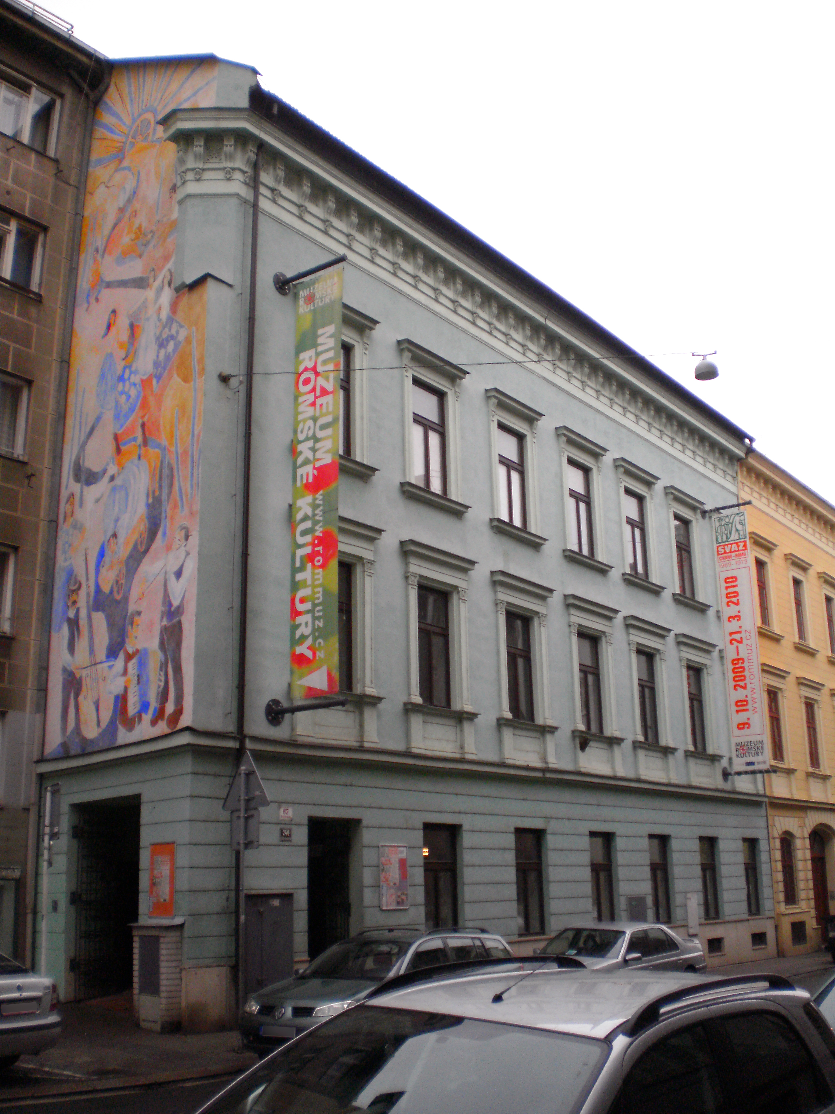 Museum of Romani Culture, Bratislavska 67/246, Brno, Czech Republic